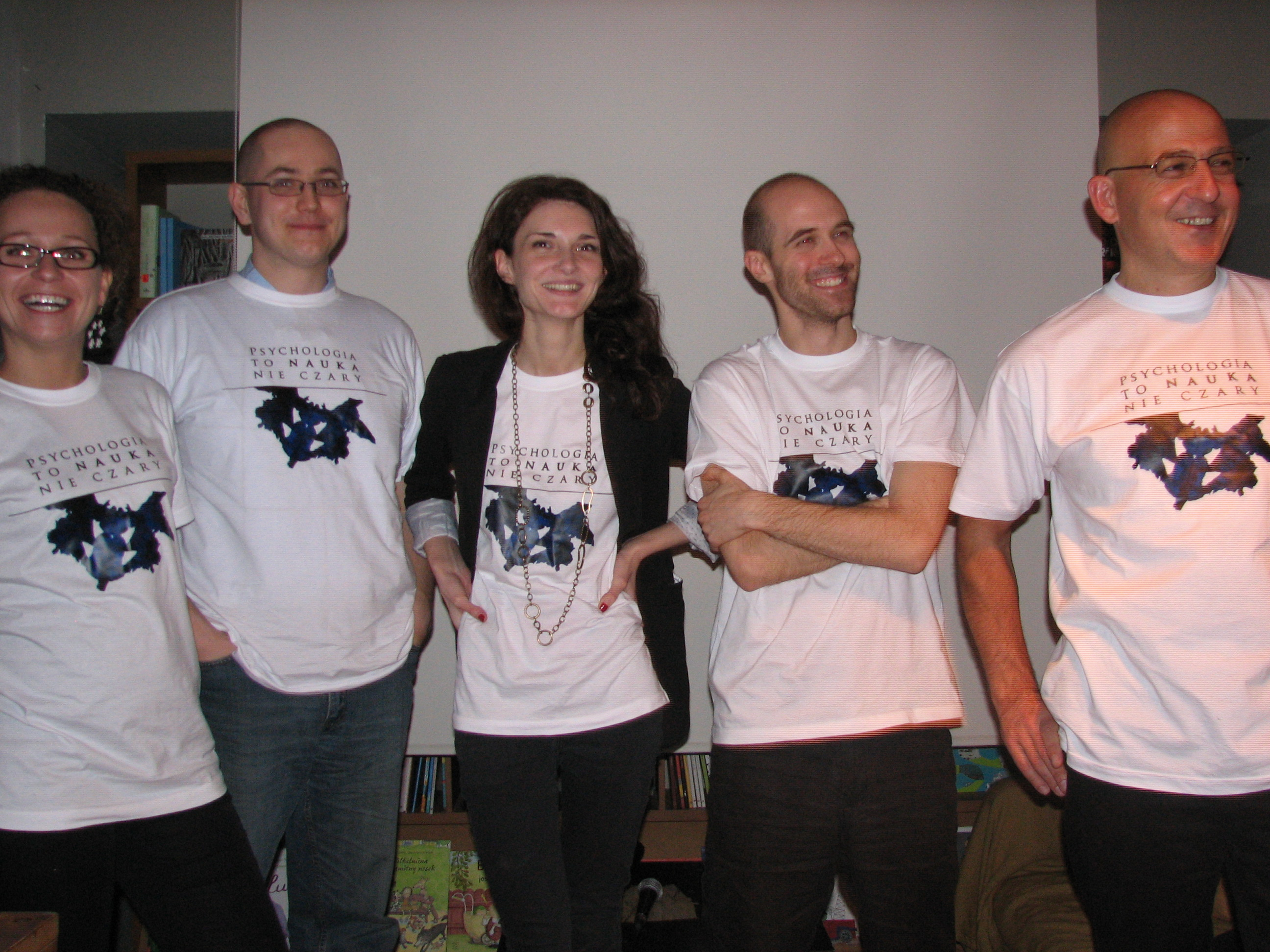 "Psychology is Science not Witchcraft" Campaign, Wroclaw, Poland, 1.03.2012